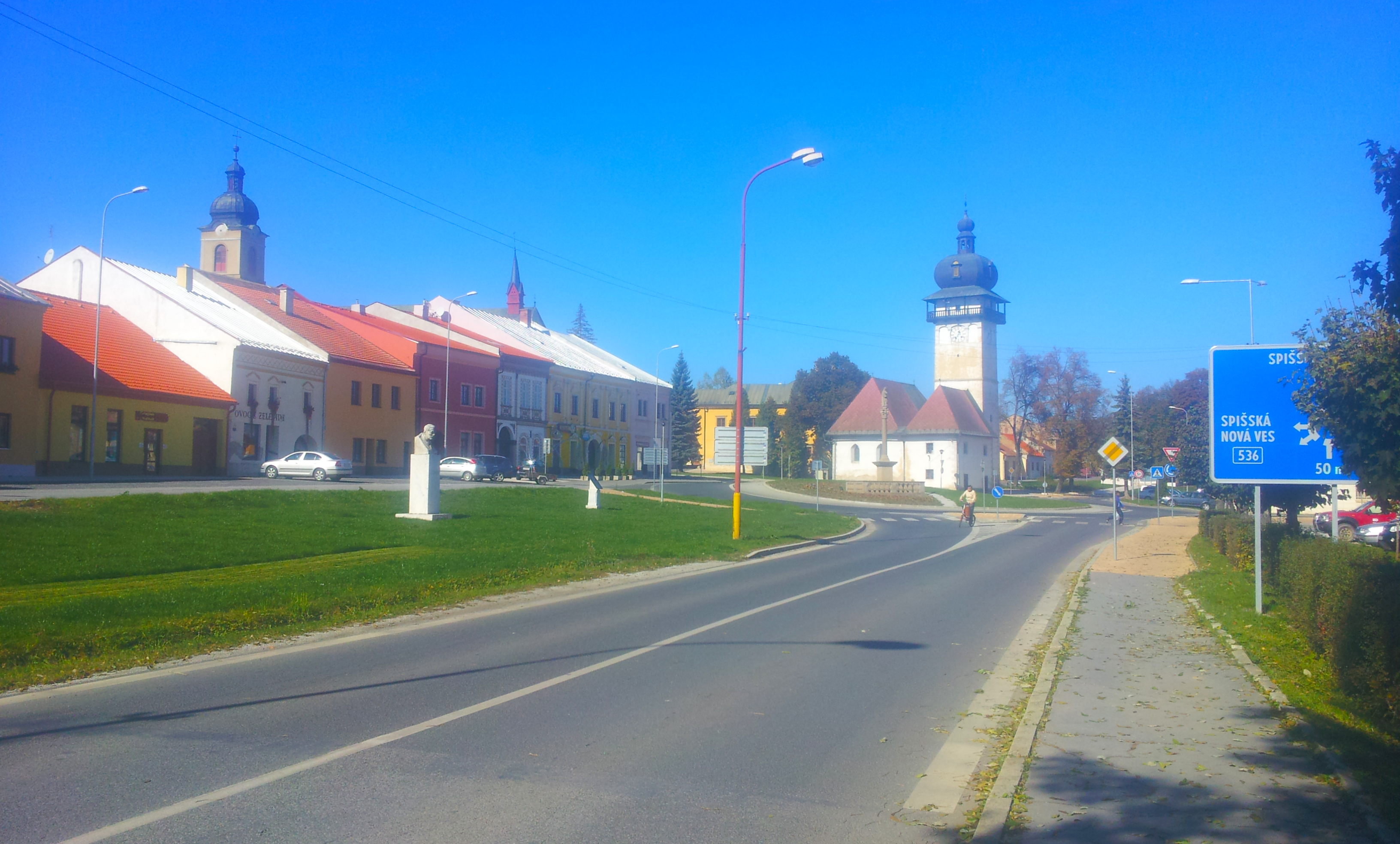 Square in Spisske Vlachy with Kostolna street, traffic roundabout and Church of the Assumption.